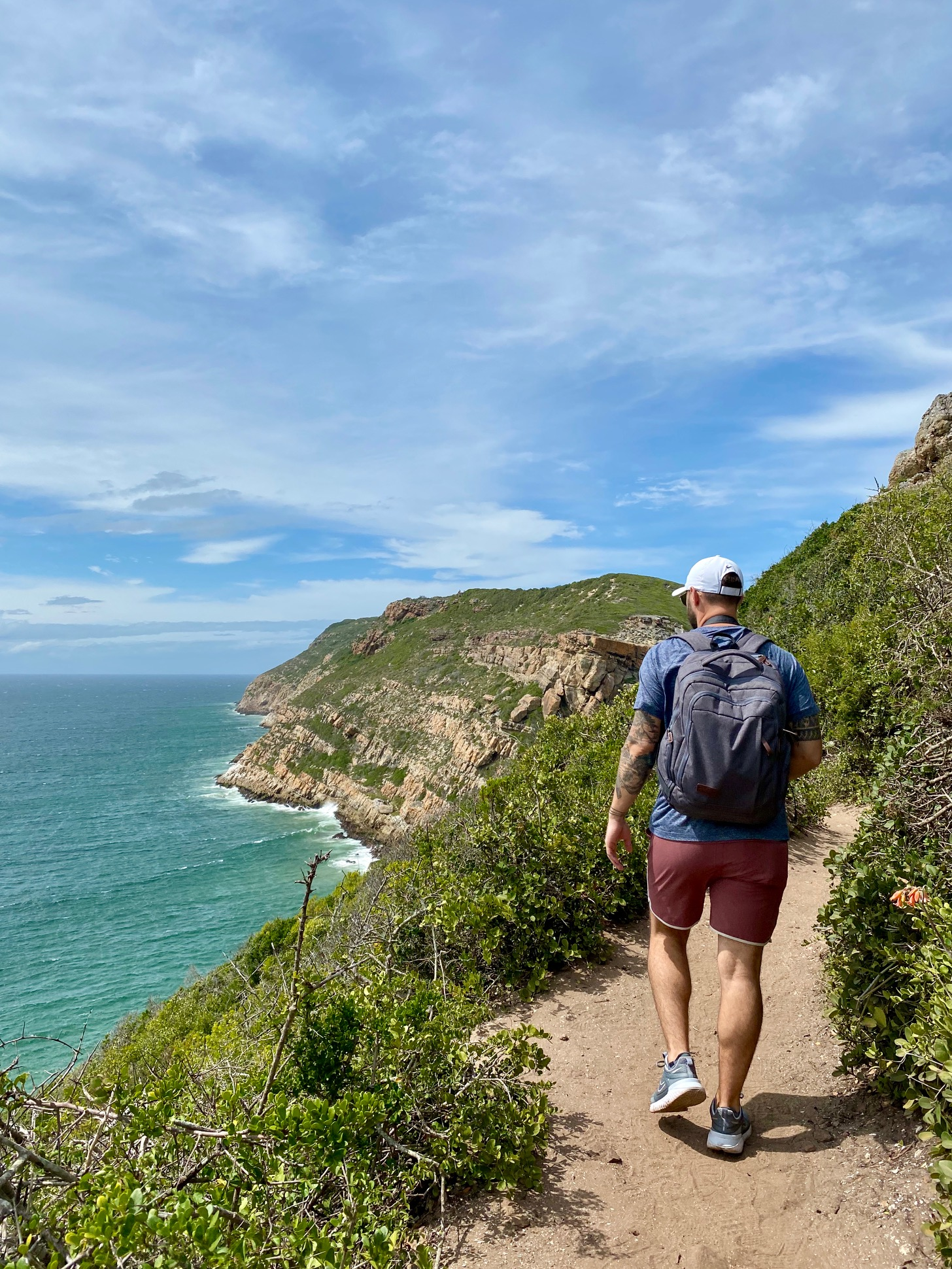 This is an image with the theme "Africa on the Move or Transport" from: South Africa